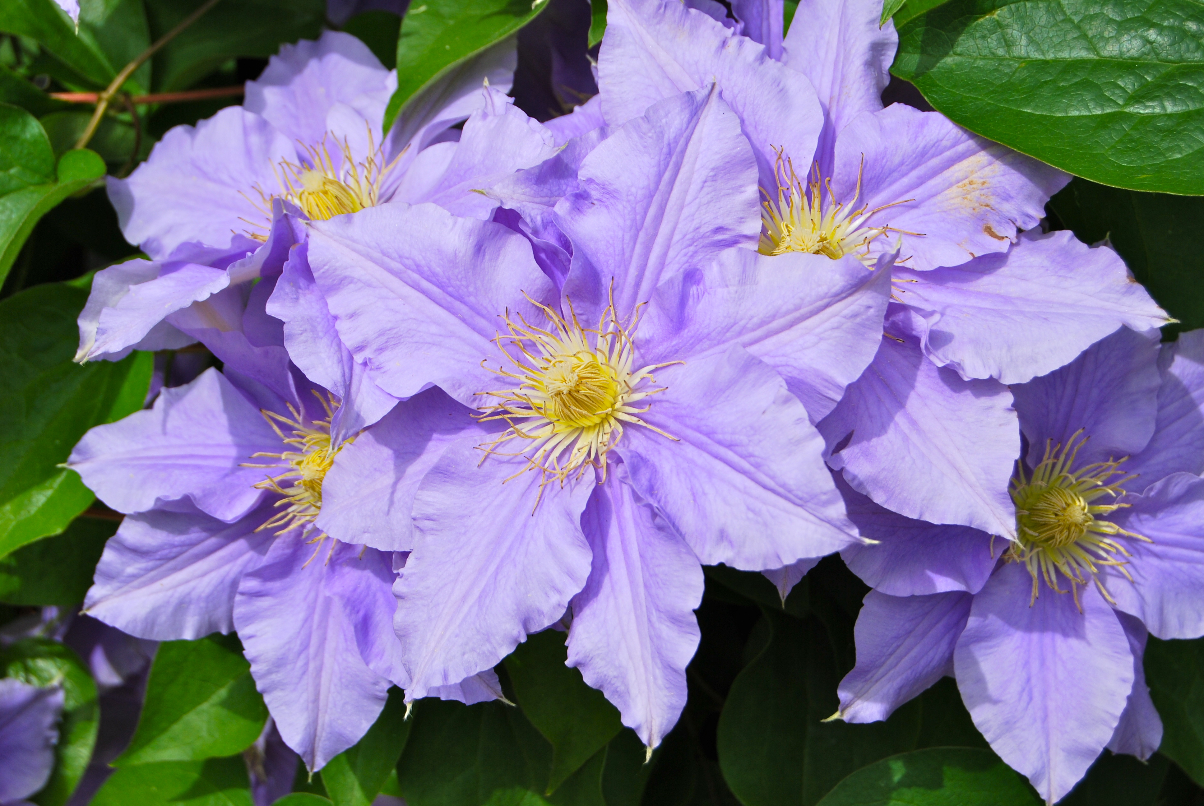 Purple clematis flowers in upstate New York, United States